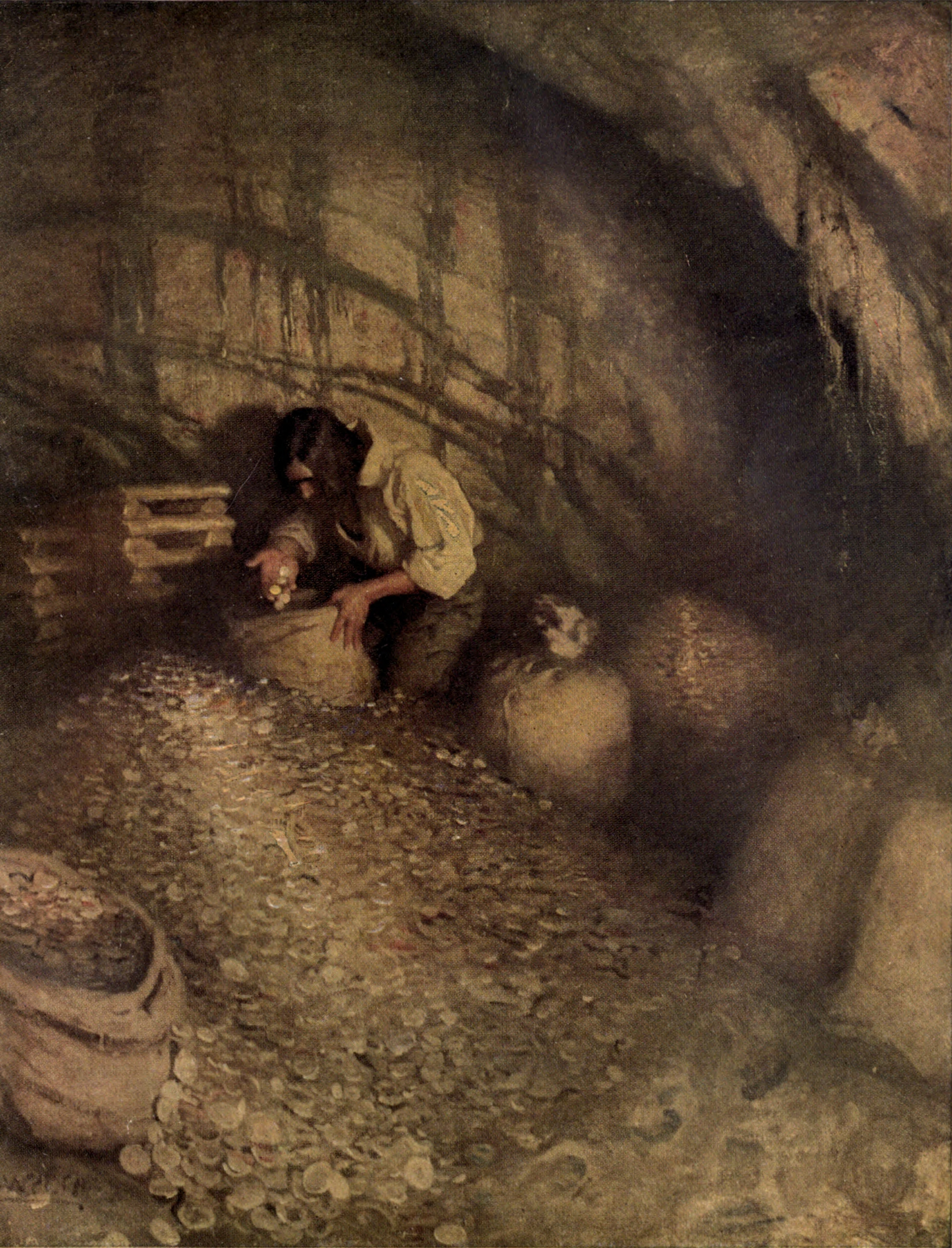 Jim and the Treasure by N. C. Wyeth from 1911 edition of Treasure Island